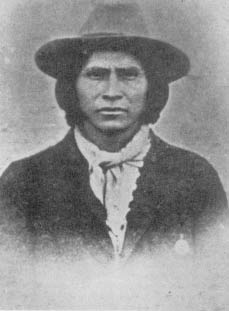 The Apache Kid (Haskay-bay-nay-ntayl)